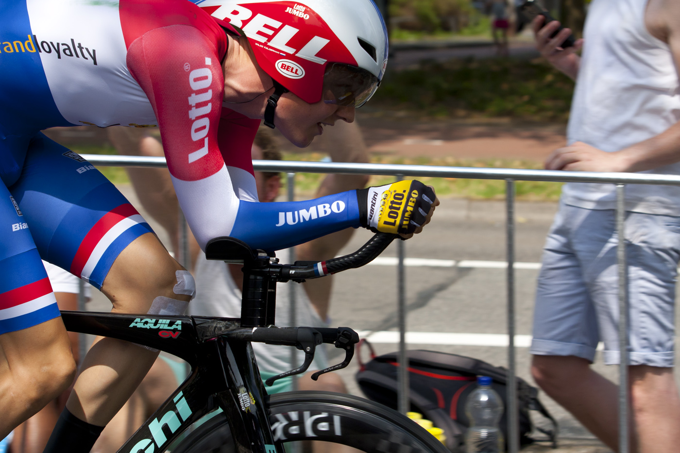 The Dutch champion, after 2 km's in the race . Contre la Montre (time trial), the first stage of the Tour de France 2015. 18,3 km's in Utrecht, Netherlands.